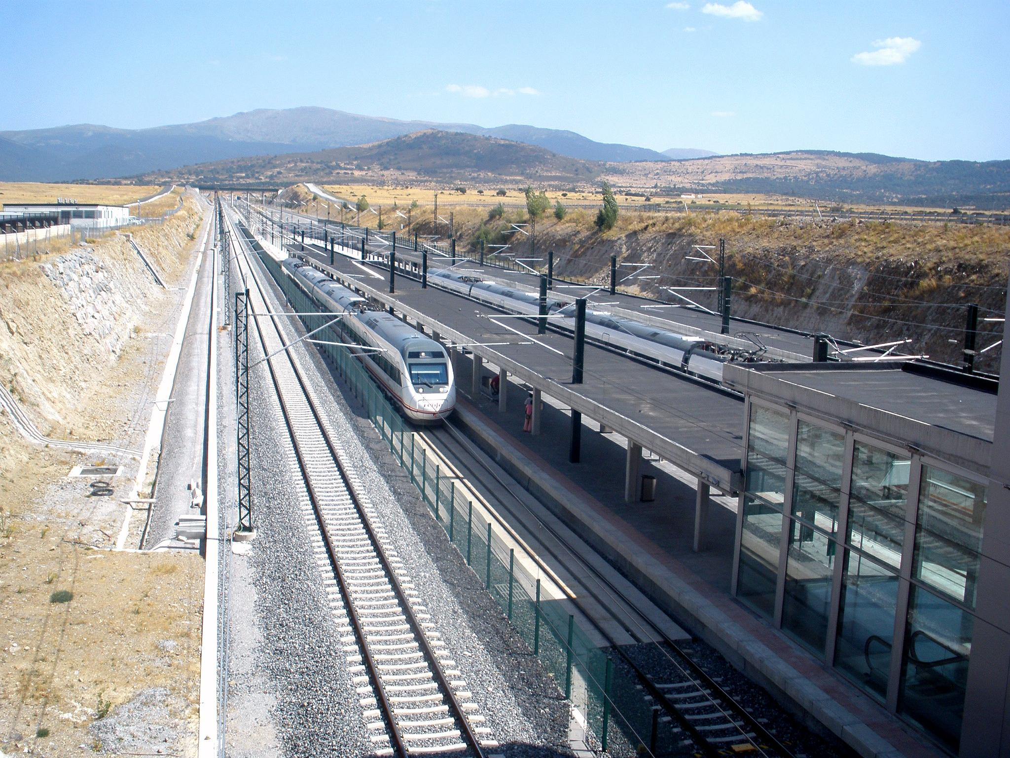 Segovia Guiomar railway station on the Madrid - Valladolid high speed line. (Segovia, Spain)